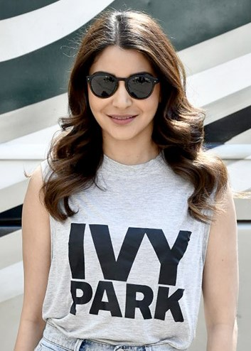 Bollywood HAnushka Sharmaungama at Mehboob Studio after a shoot.